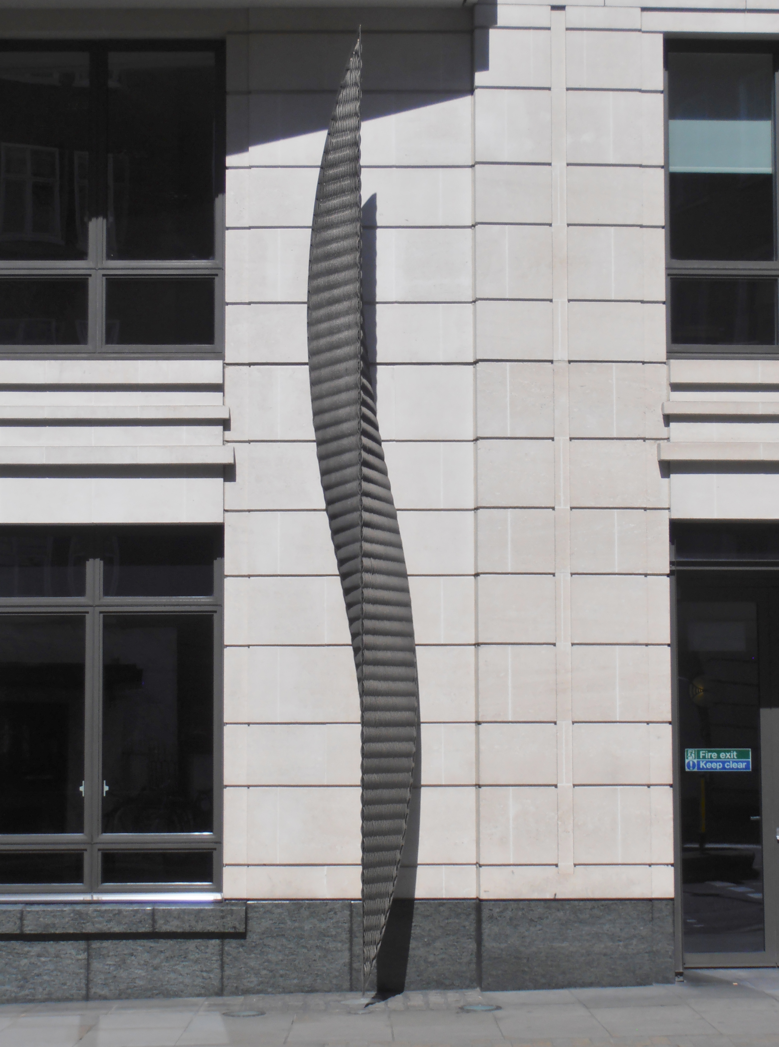 Helix (1998) by Eilìs O'Connell. One Curzon Street, Mayfair, London W1. The making of this file was supported by Wikimedia UK.